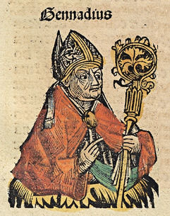 Woodcut from the Nuremberg Chronicle Gennadius, Patriarch of Constantinople from 458 to 471